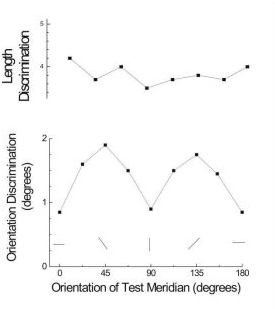 For orientations around the clock, discrimination of the length of a line is the same, but discrimination of orientation is worse for oblique than horizontal or vertical